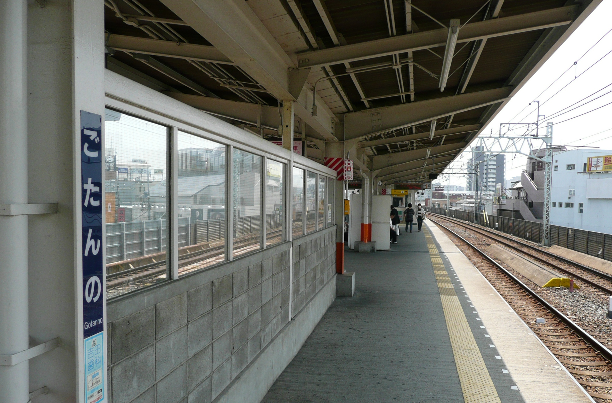 The platforms at Gotanno Station on the Tobu Skytree Line